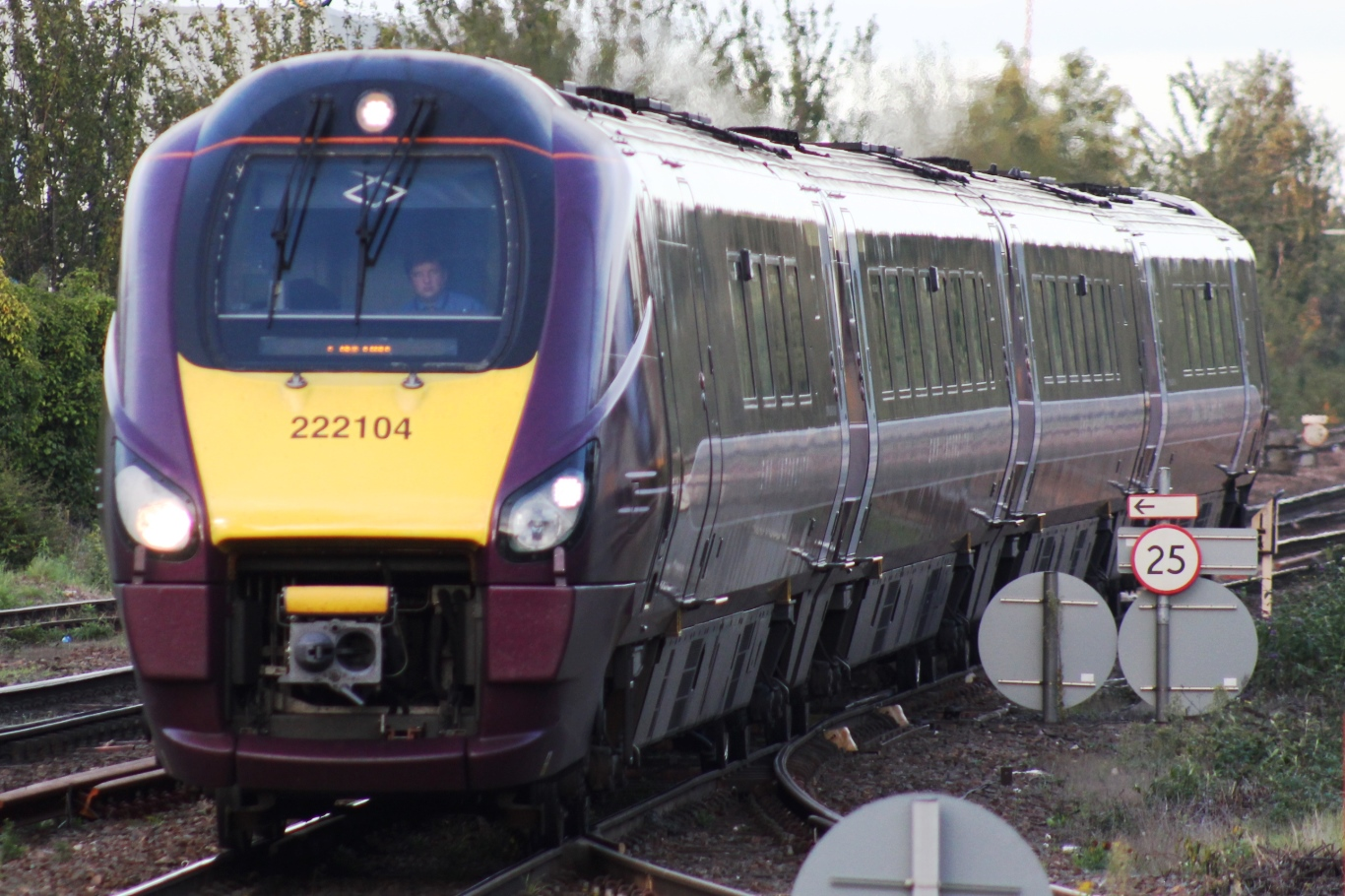 Rebranded East Midlands Railway 'Meridian' unit 222104 arriving at Leicester with a service from Lincoln.